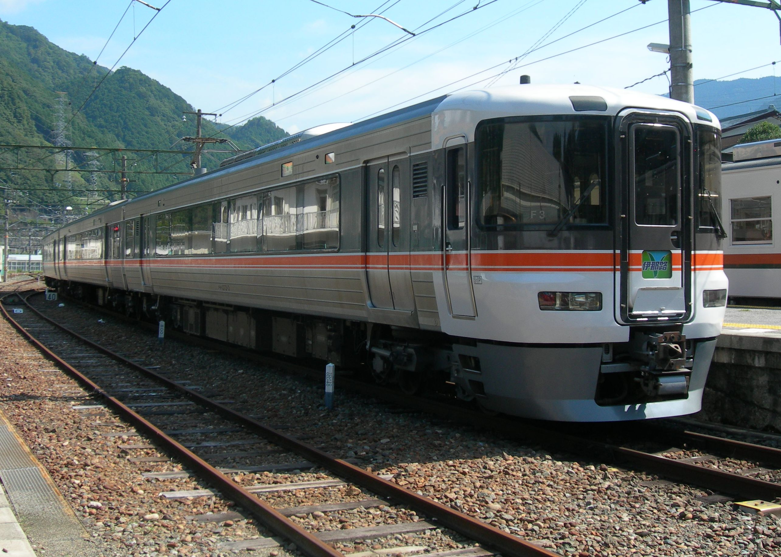 JR Central 373 series EMU set F3 on an Inaji limited express service at Chūbu-Tenryu Station